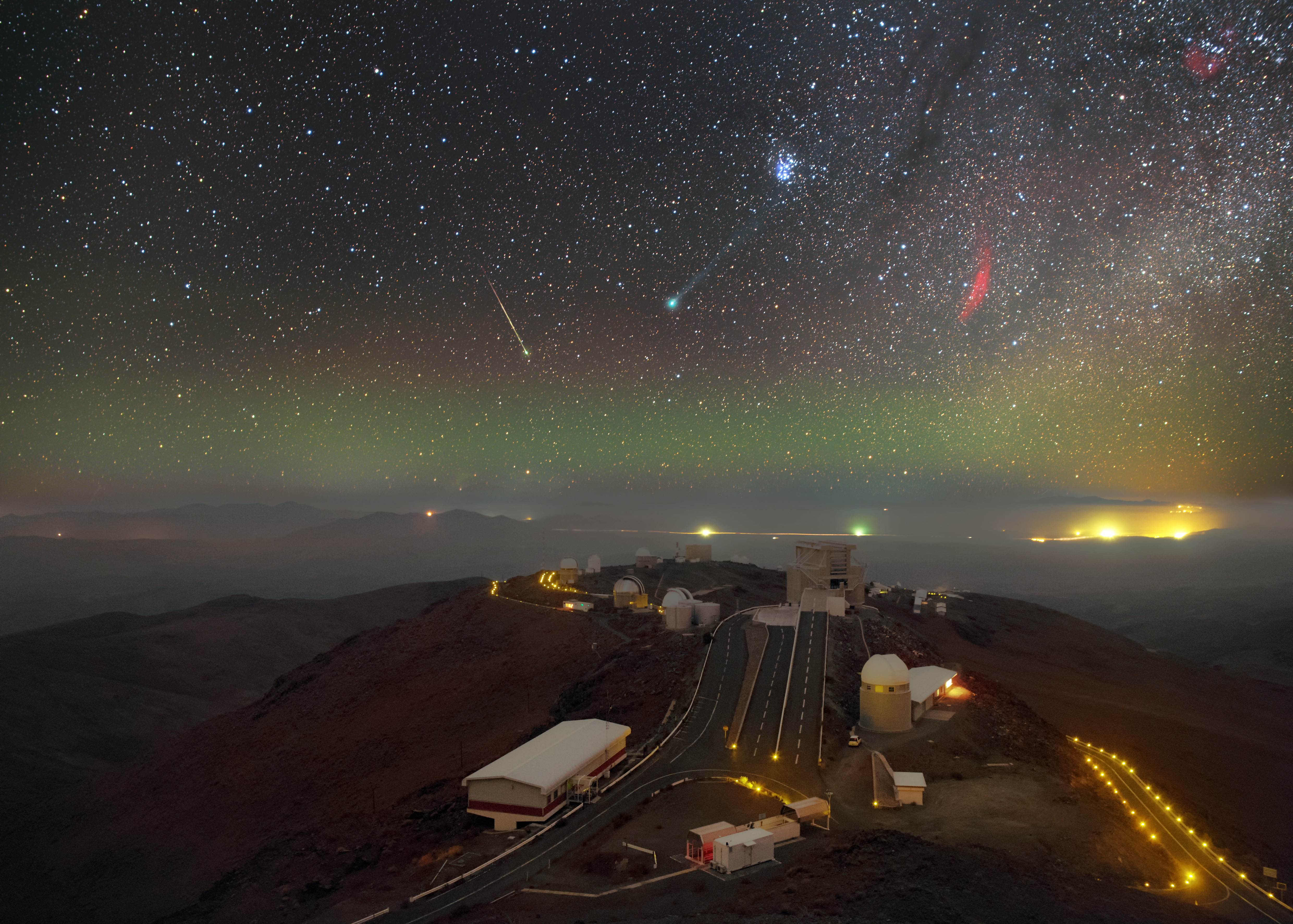 In this new ESO image, nightfall raises the curtain on a theatrical display taking place in the cloudless skies over La Silla. In a scene humming with activity, the major players captured here are Comet Lovejoy, glowing green in the centre of the image; the Pleiades above and to the right; and the California Nebula, providing some contrast in the form of a red arc of gas directly to the right of Lovejoy. A meteor adds its own streak of light to the scene, seeming to plunge into the hazy pool of green light collecting along the horizon. The telescopes of La Silla provide an audience for this celestial performance, and a thin shroud of low altitude cloud clings to the plain below the observatory streaked by the Panamericana Highway. Comet Lovejoy’s long tail is being pushed away from the comet by the solar wind. Carbon compounds that have been excited by ultraviolet radiation from the Sun give it its striking green hue. This is the first time the comet has passed through the inner Solar System and ignited so spectacularly in over 11 000 years. Its highly elliptical orbit about the Sun — adjusted slightly due to meddling planets — means that it will not grace our skies for another 8000 years once it has rounded the Sun and begun its lonely voyage back into the cold outer regions of the Solar System. This image was taken by ESO Photo Ambassador Petr Horálek during a visit to La Silla in January 2015. The sky in this image was captured with a series of long exposures, resulting in the wonderful vista of the comet in the sky. However, the bottom half uses only one of these exposures in order to retain the sharpness of the La Silla landscape.